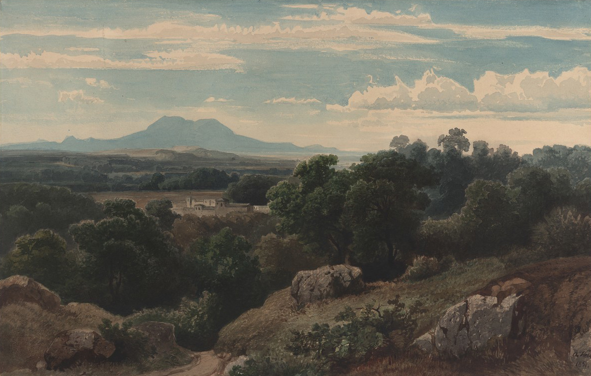 Italian Landscape